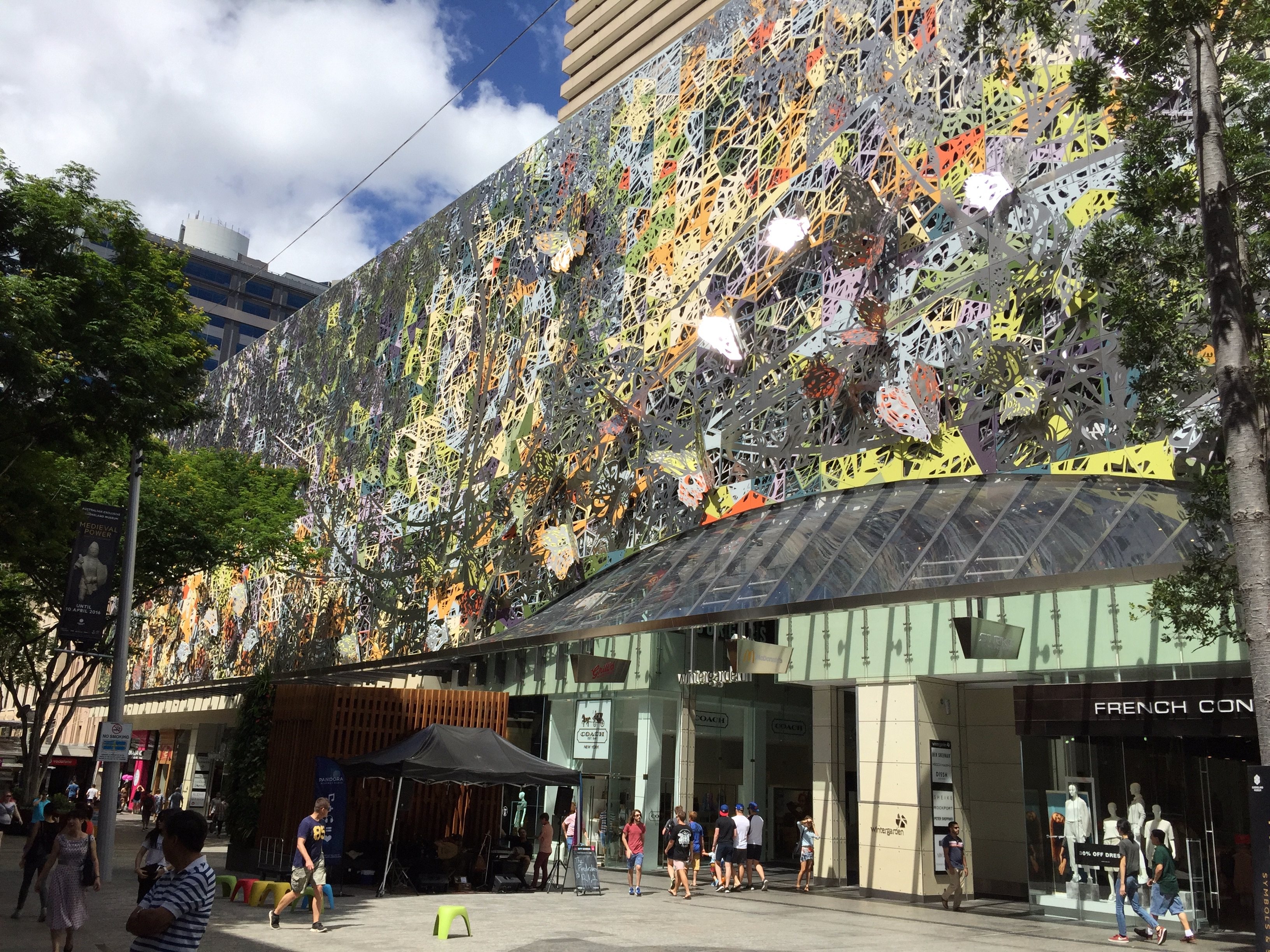 Wintergarden, Queen Street, Brisbane